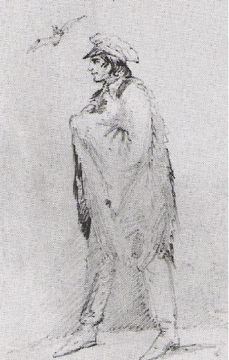 Roman Zamorski-drawn by C.K. Norwid